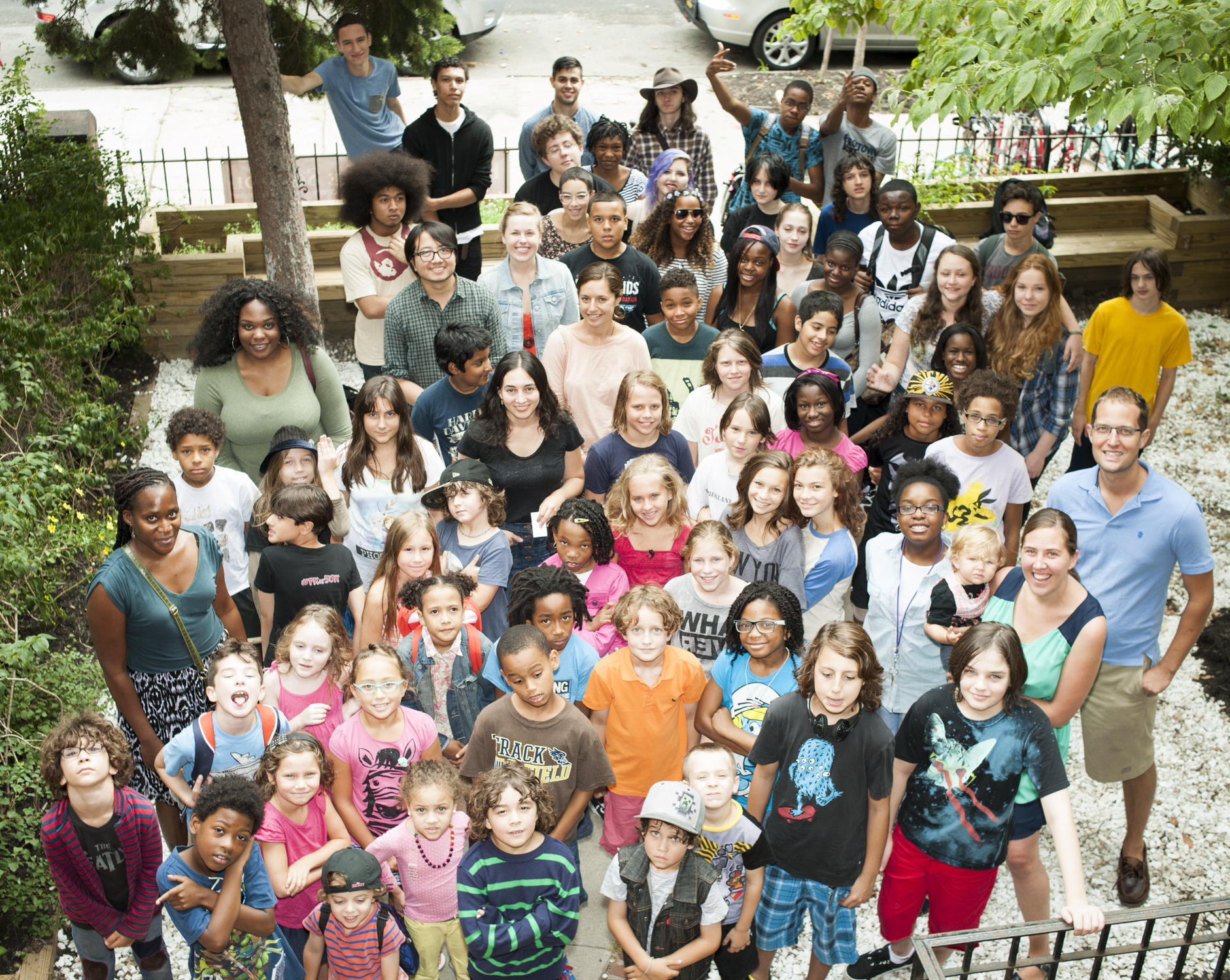 First day of Brooklyn Free School's eleventh school year